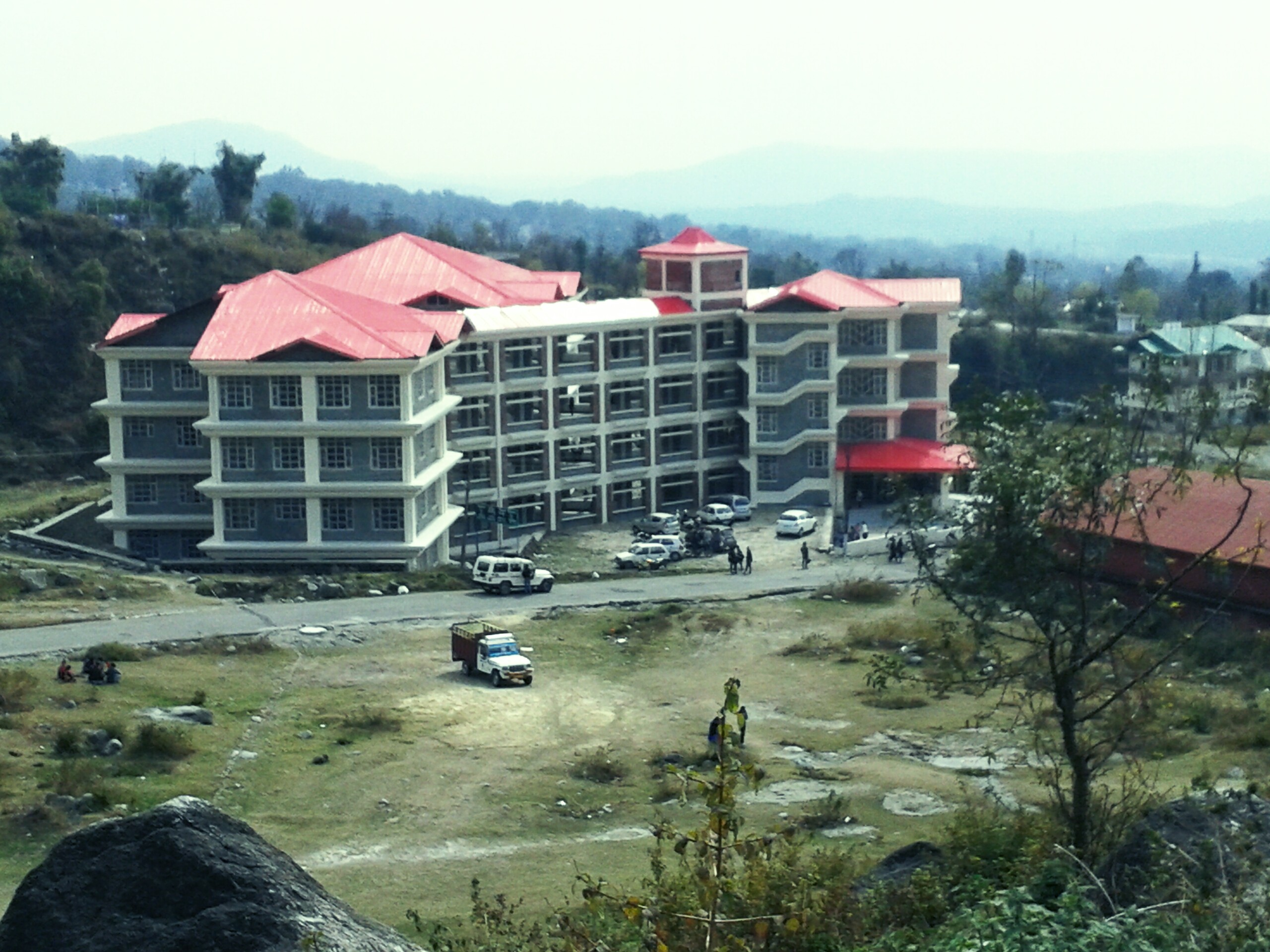 College view from front hill